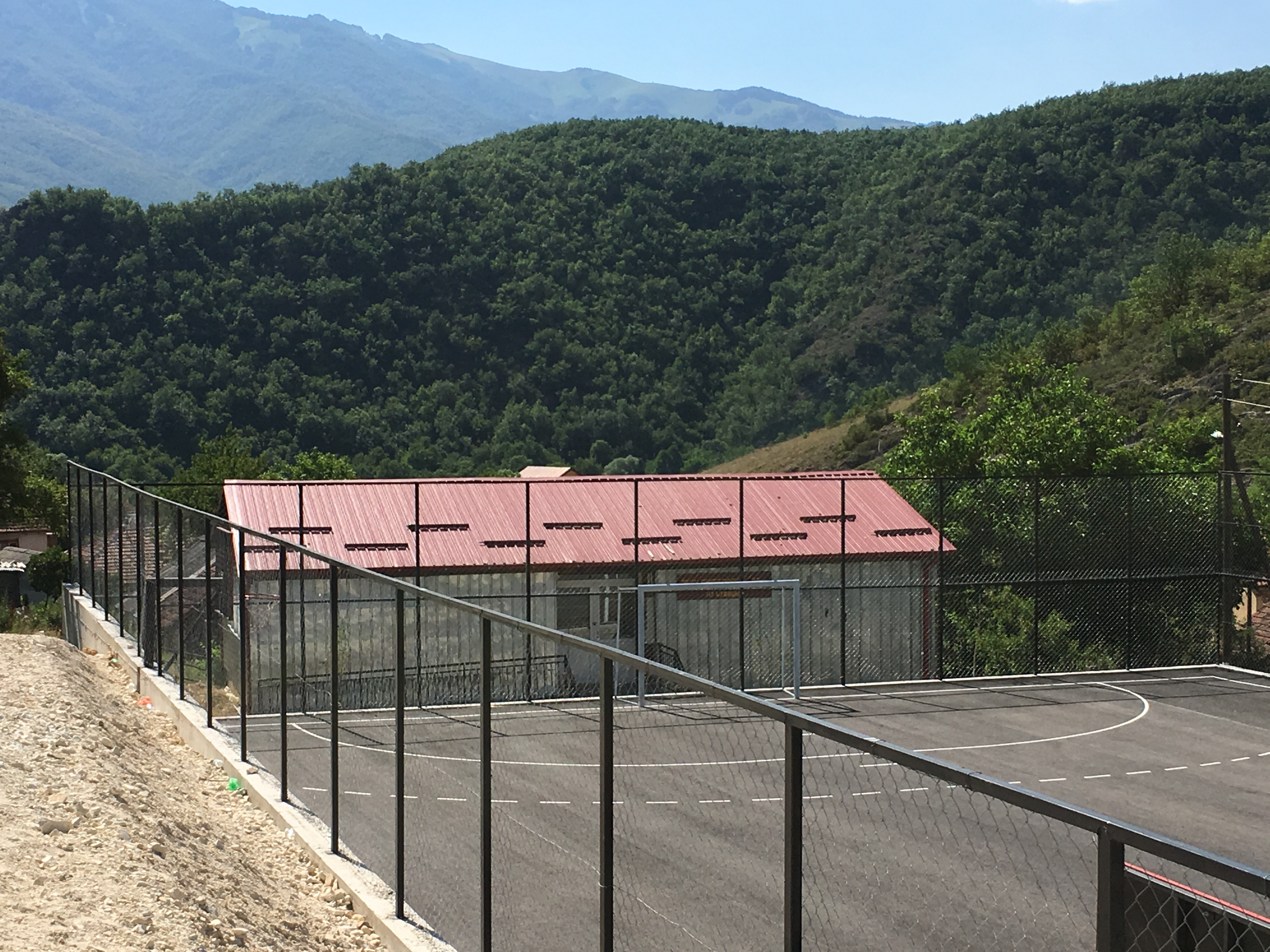 Primary school in the village of Suvodol